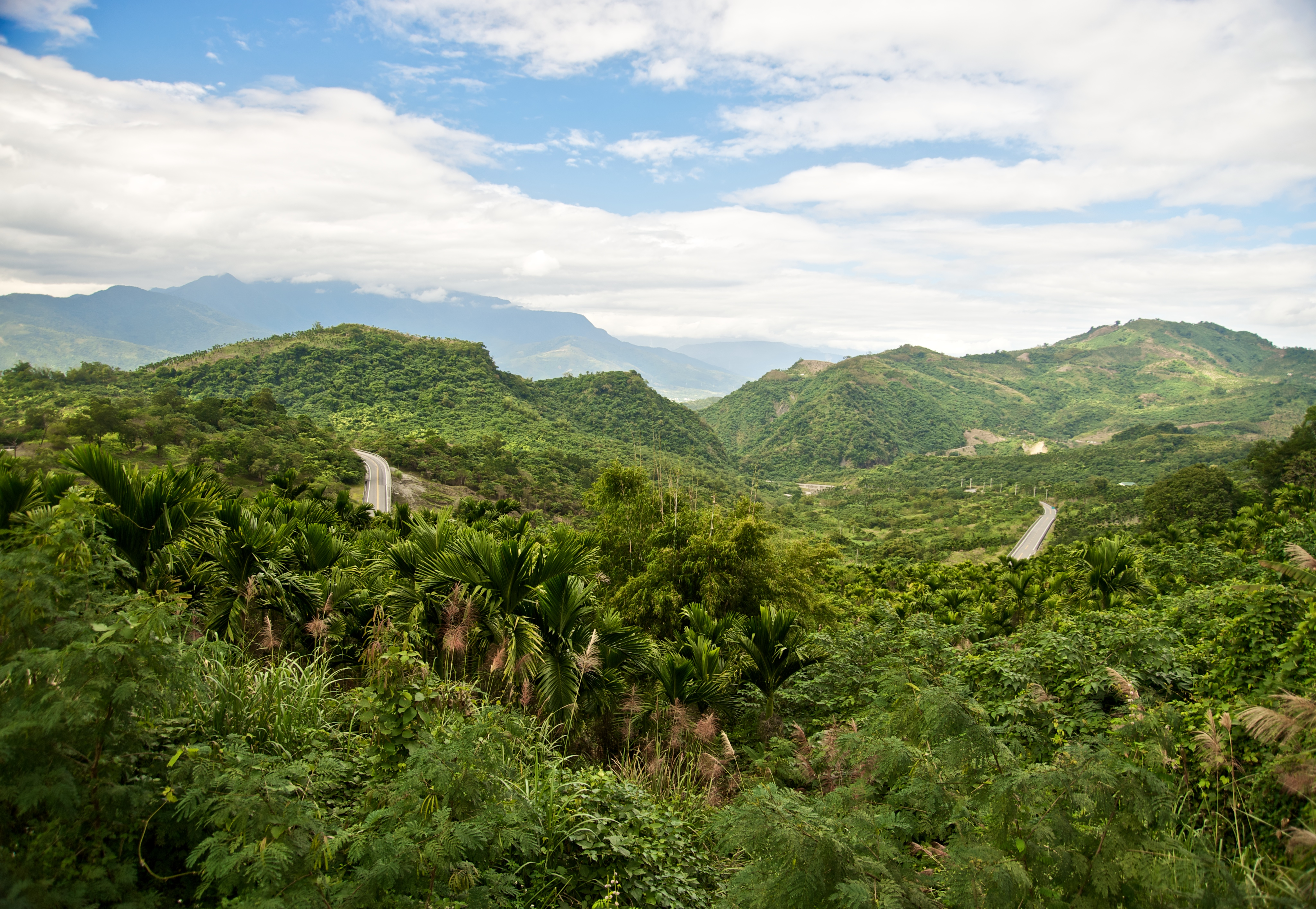 Coastal Mountain Range in Taiwan